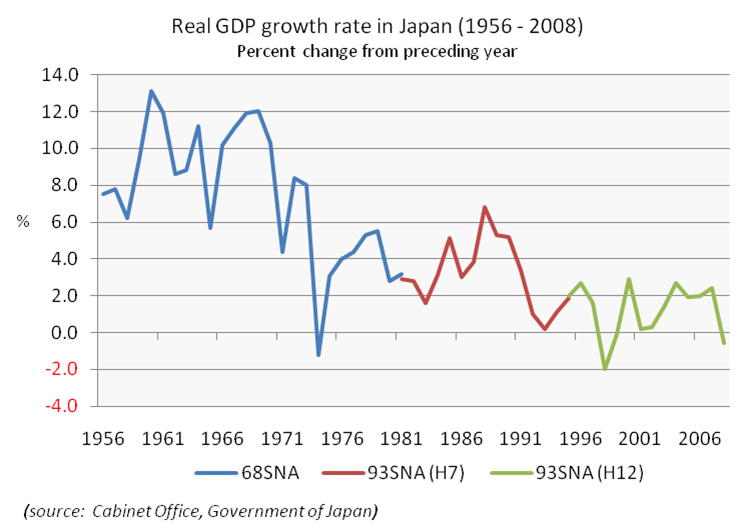 Real GDP growth rate in Japan (1956 - 2008) These lines in this graph mean as follows; 68SNA: real GDP growth rate from 1956 to 1981 93SNA(H7) : real GDP growth rate from 1981 to 1995 (H7 means 1995) 93SNA(H12): real GDP growth rate from 1995 to 2008 (H12 means 2000)